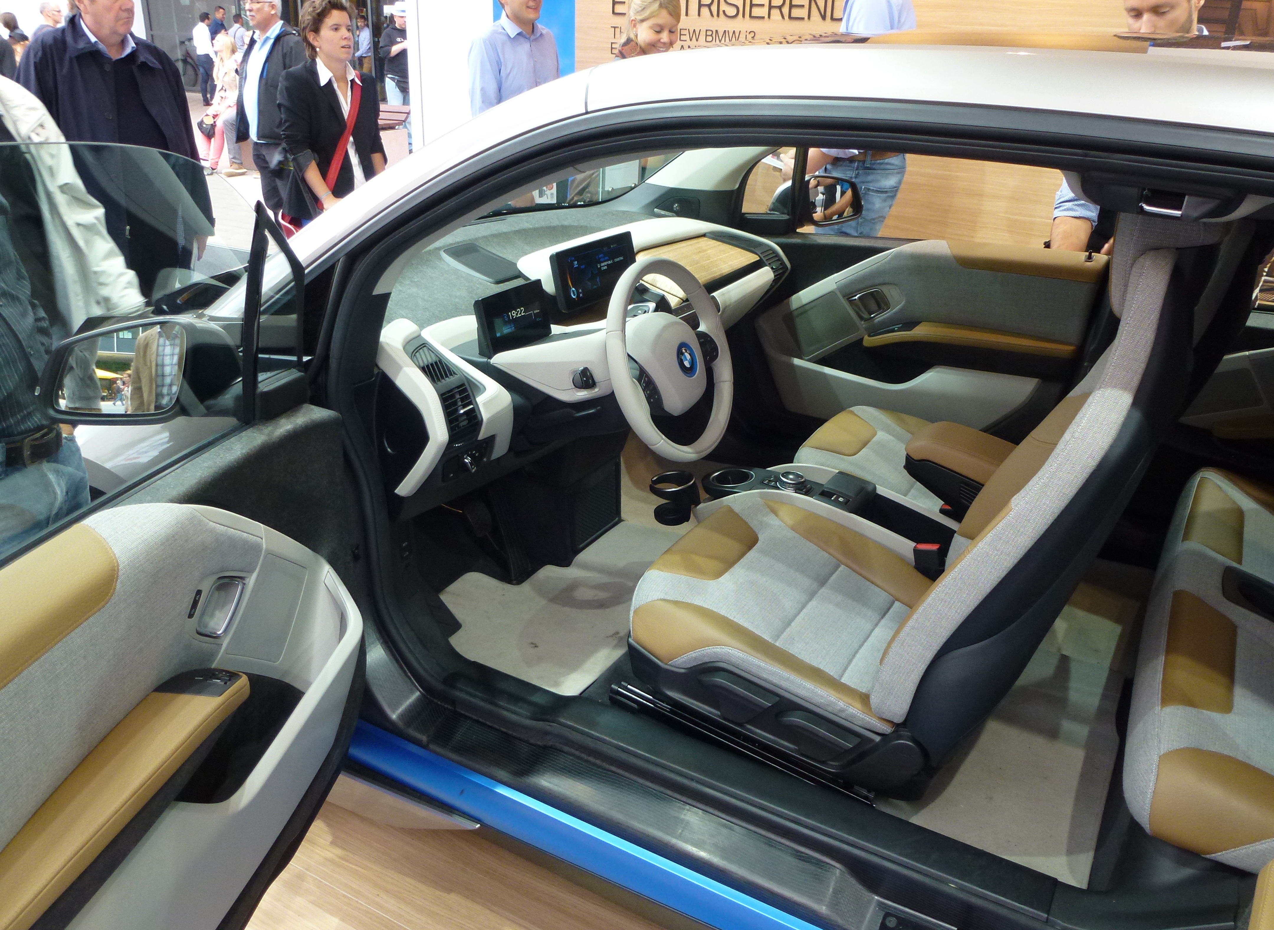 BMW i3 Car